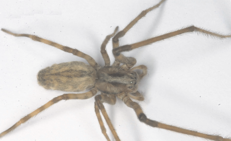 A female of Fecenia protensa from Bali, Indonesia.